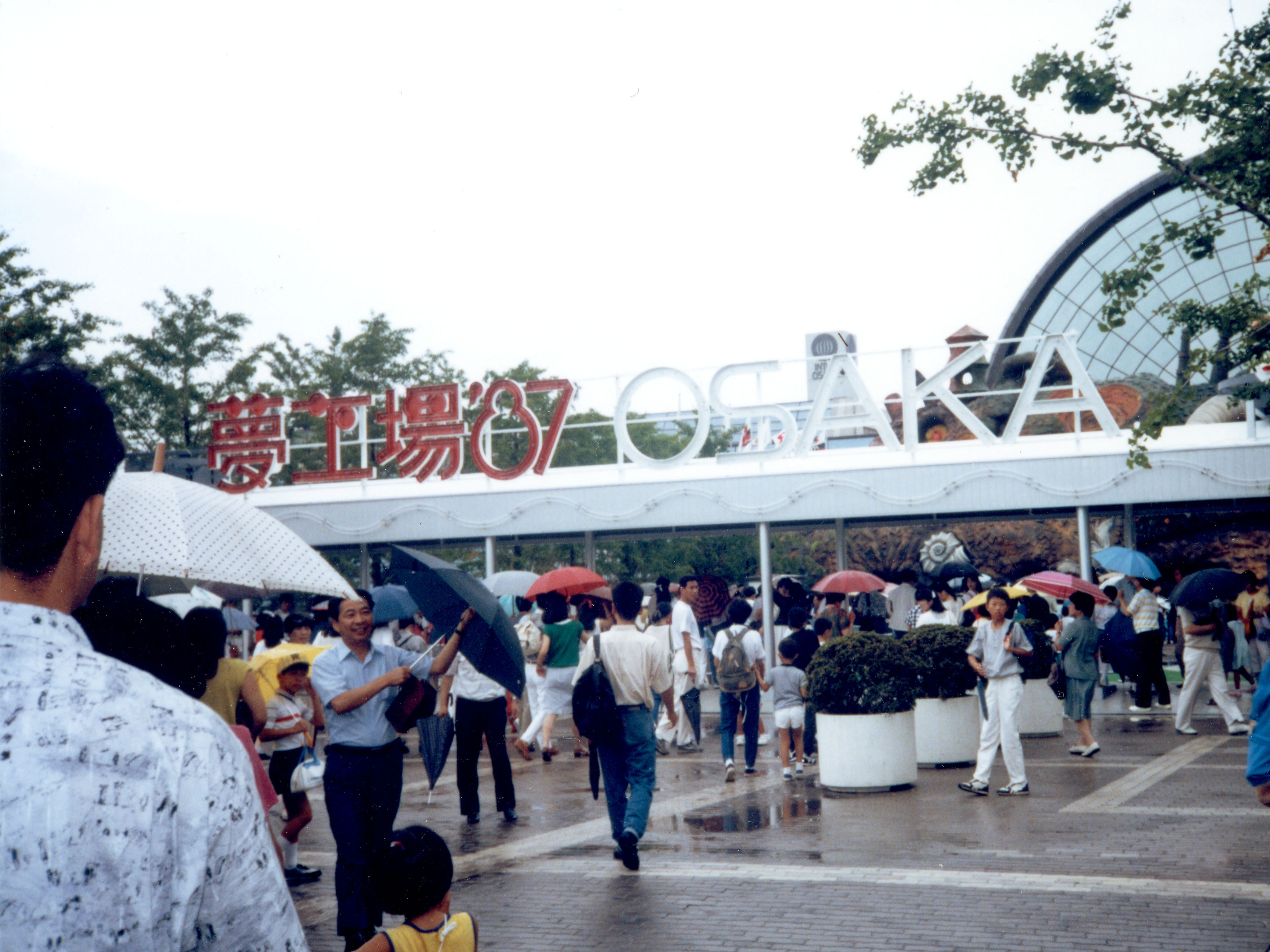 Yumekojo'87 in Intex Osaka, Nankokita, Suminoe-ku, Osaka, Japan.